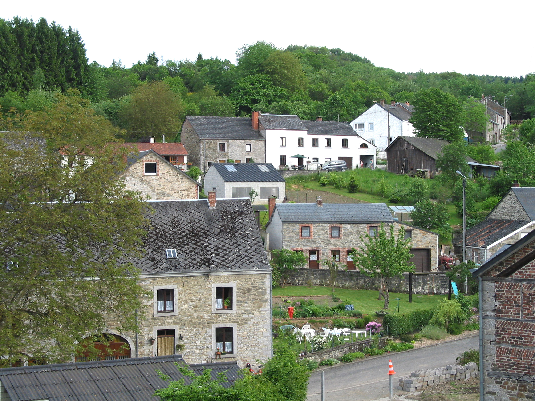 Tellin (Belgium), Val des Cloches" (Valley of the Bells) quarter.